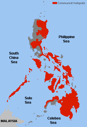 Main hotspots of Communist activities in the Philippine archipelago.